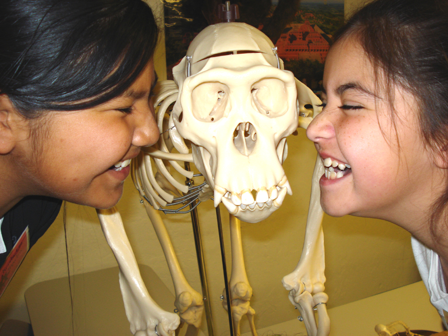 we smile alike